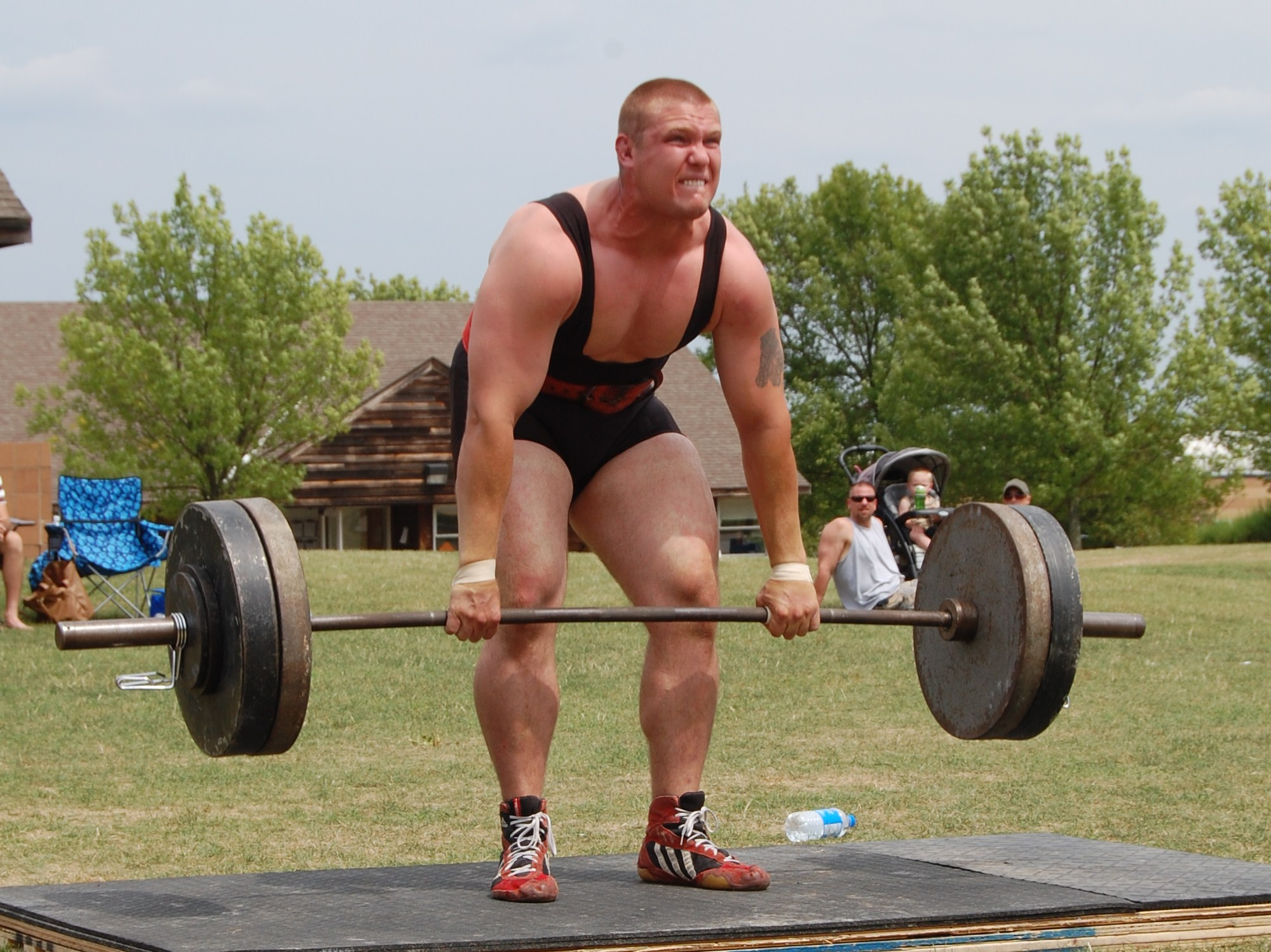 Strongmen event: the Deadlift (phase 2).